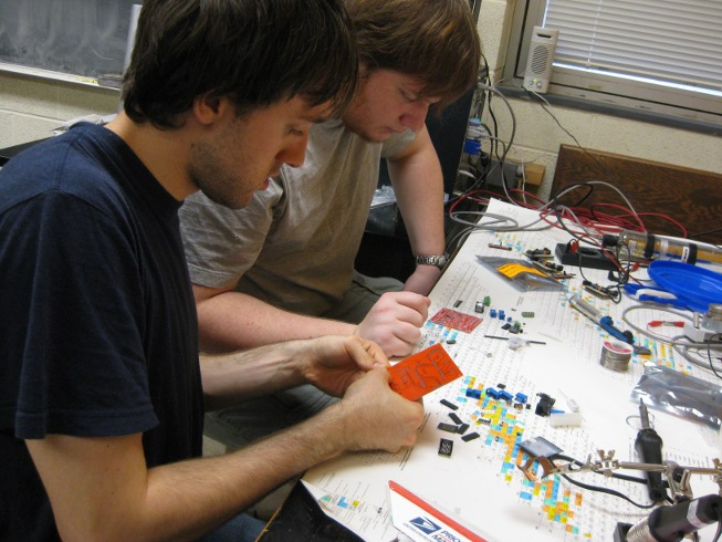 members of open source ecology movement building a RepRap